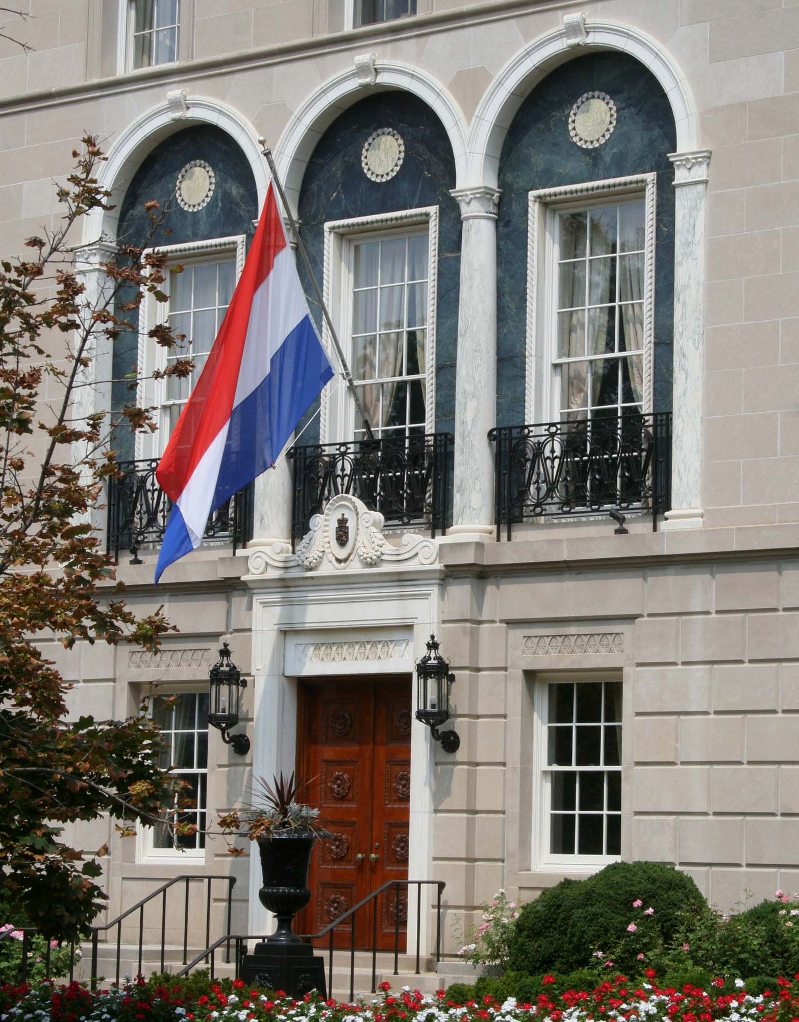 Embassy of the Netherlands